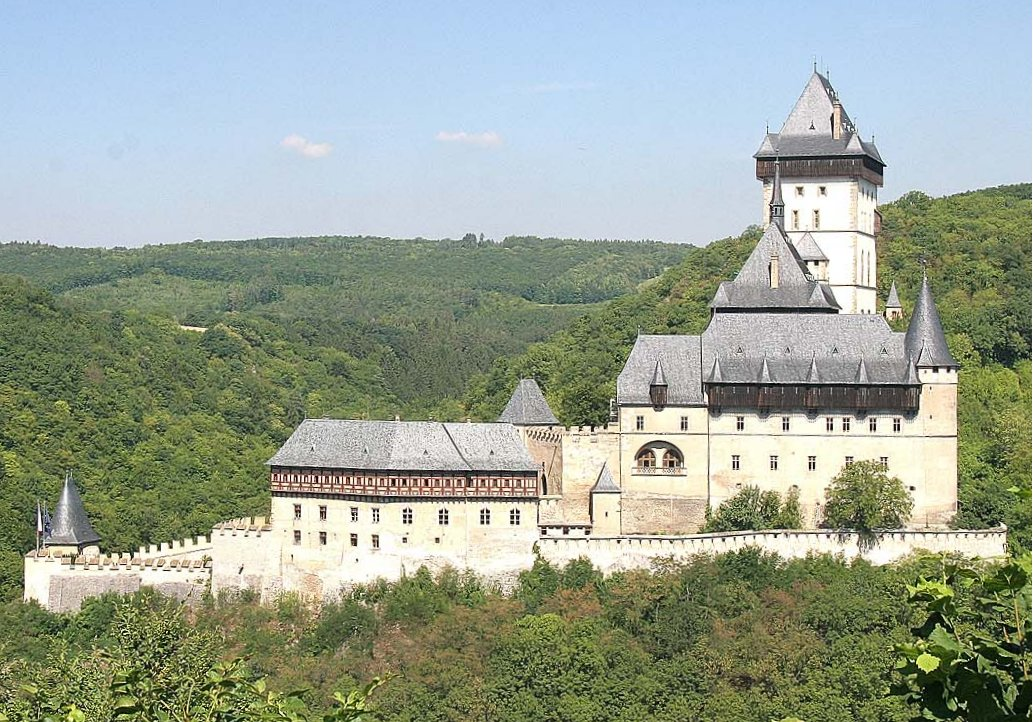 Castle Karlštejn